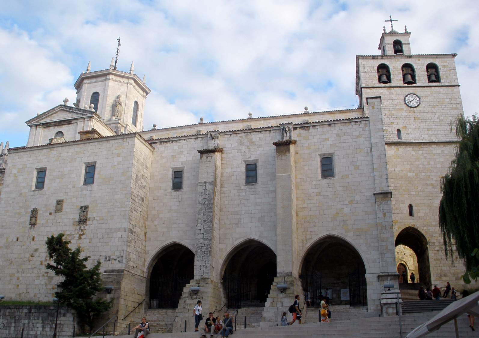 Catedral de Santander (Cantabria)